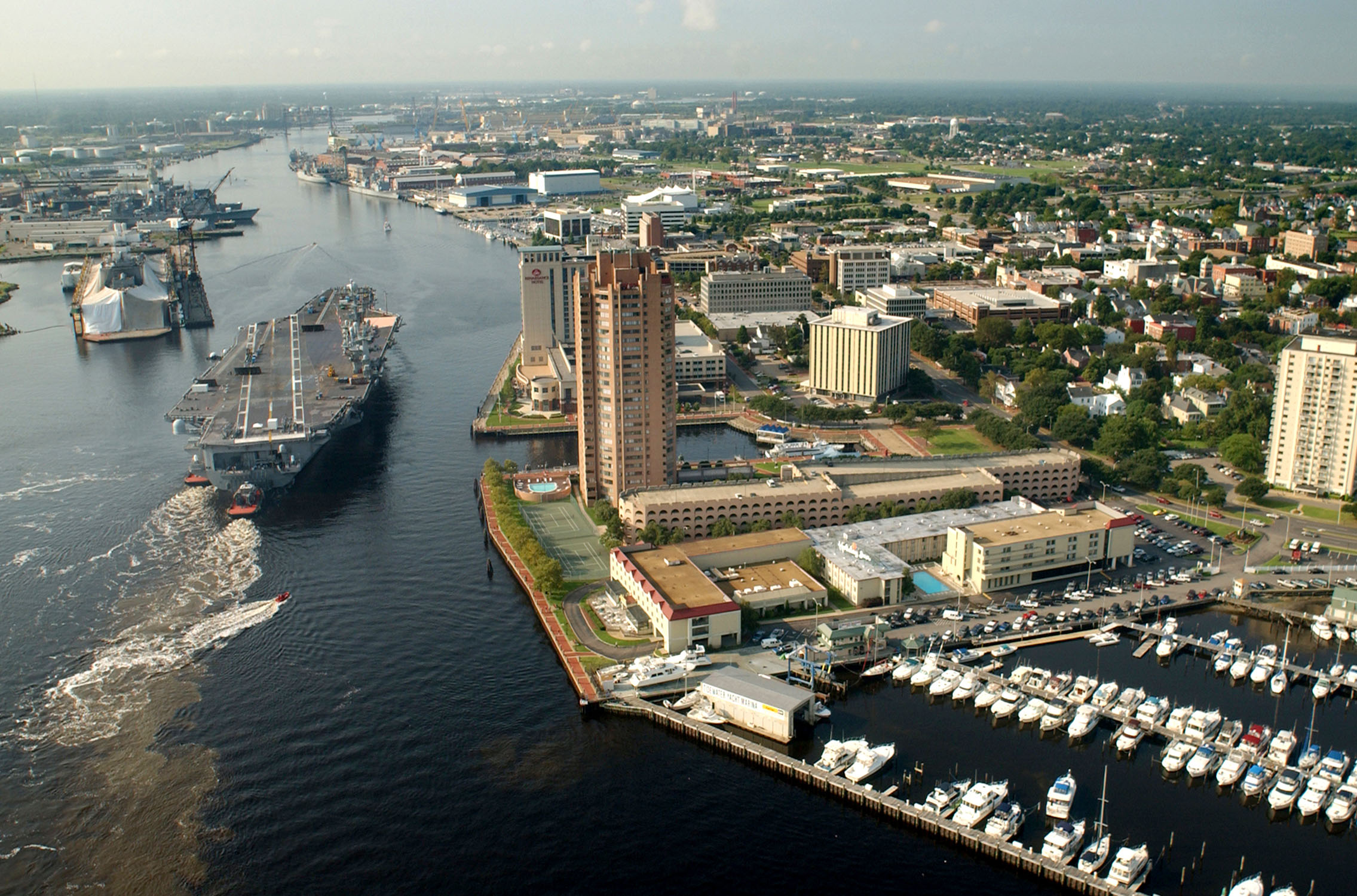 Portsmouth, Va. (Aug. 20, 2003) -- Tug boats guide USS Harry S. Truman (CVN 75) up the Elizabeth River, past Portsmouth landmarks, to the Norfolk Naval Shipyard to begin a Planned Incremental Availability (PIA). U. S. Navy photo by Photographer's Mate 2nd Class John L. Beeman. (RELEASED)